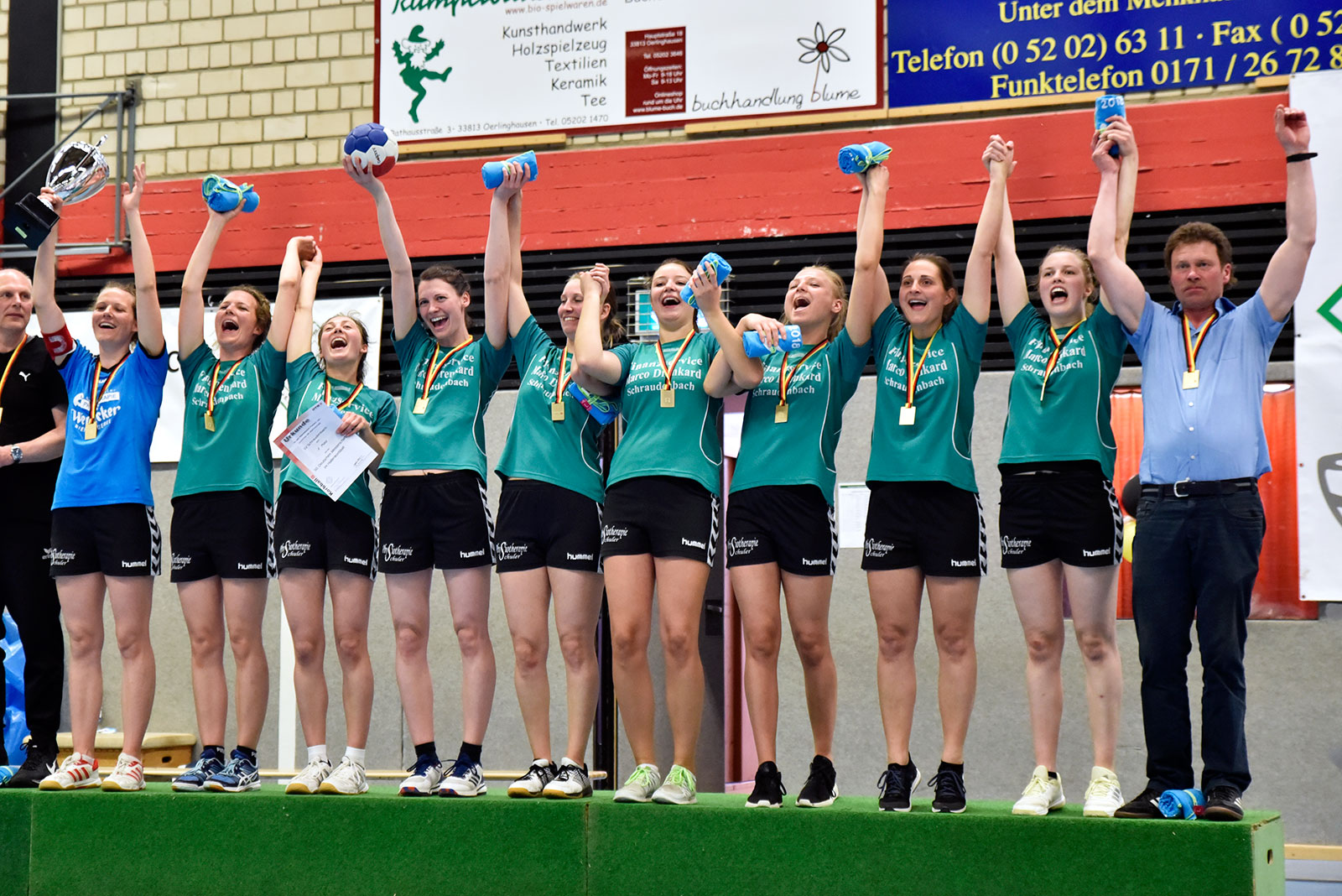 German Indoor Korbball champion 2018, the team of SV Schraudenbach (from left): goalkeeper Theresa Rumpel, Julia Fuchs, Nicole Förtsch, Carolin Fischer, Anna-Lena Blesch, Sabrina Heuler, Anna-Lena Bunn, Melissa Hendris, Jennifer Rumpel, coach Ludwig Rumpel.